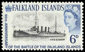 Falkland Islands error stamp of 1964; the 6d value normally depicts the Kent, and the 2 1/2d depicts the Glasgow